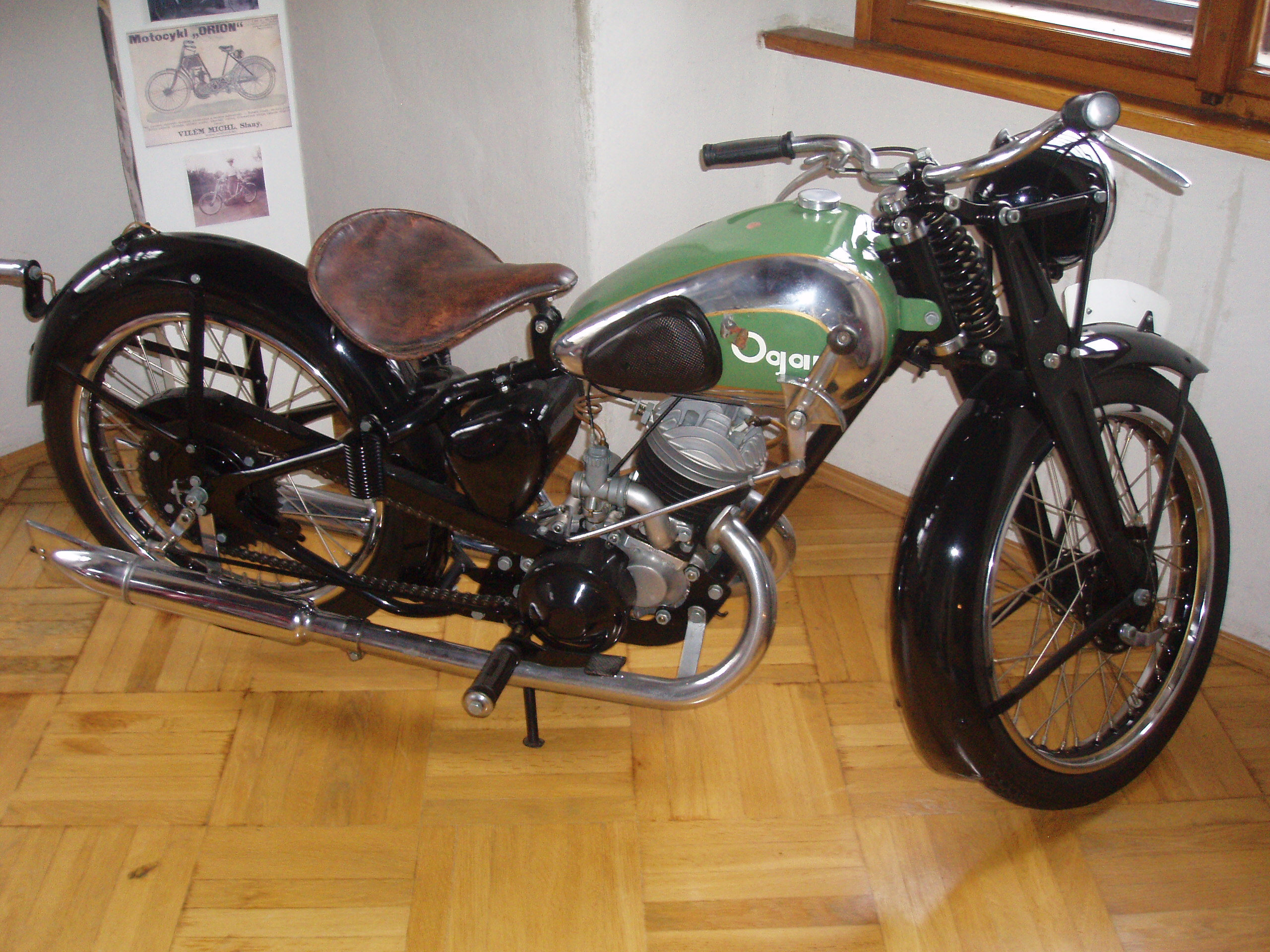 Kámen, Pelhřimov District, Czechia. Castle, motorcycle museum.